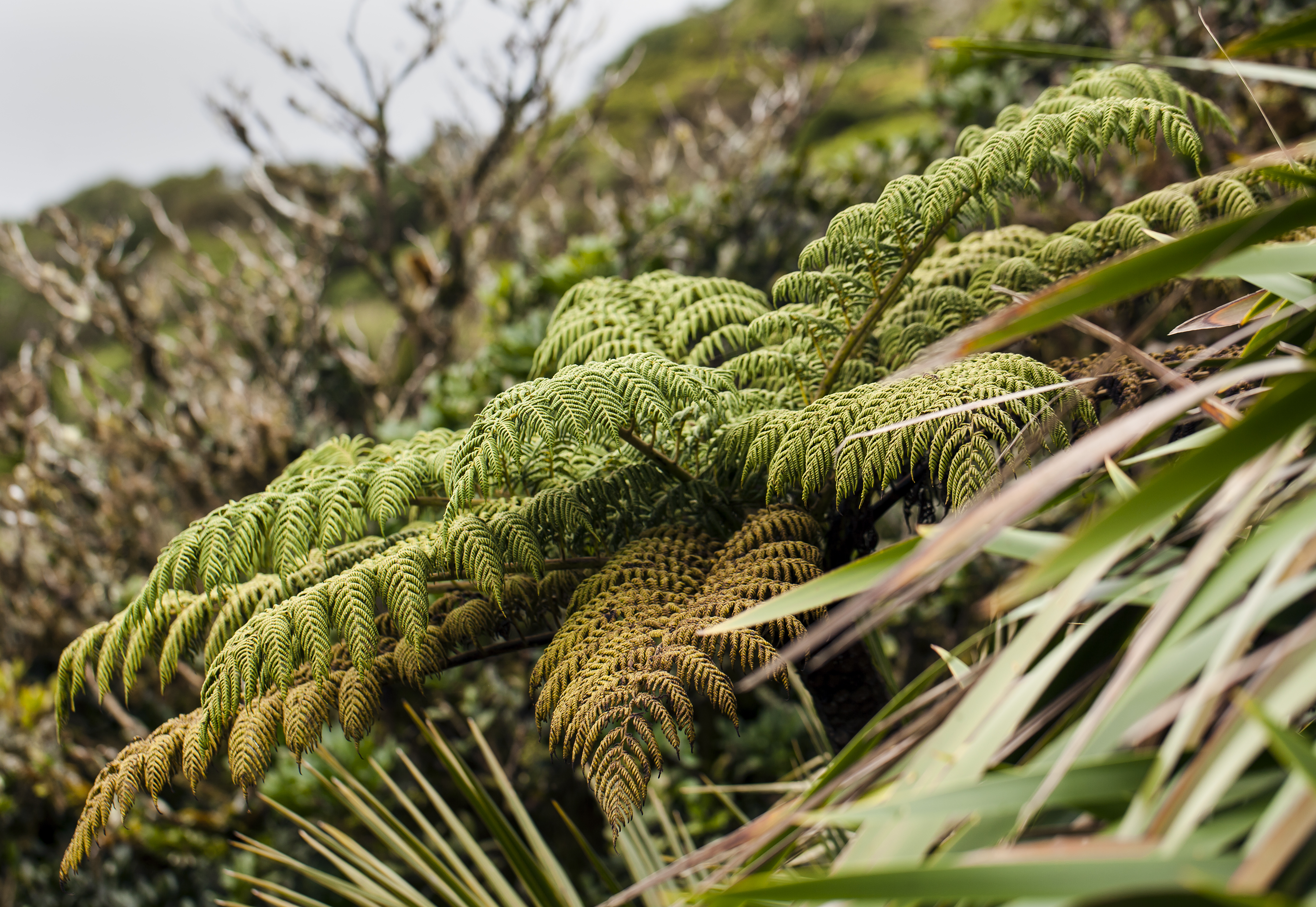 Cyathea howeana. Four species of tree fern occur on Lord Howe, all endemic. C. howeana is distinguished from the others by a greater degree of lobing of the final segments to give a more dissected look to the frond lamina. Mount Gower plateau.